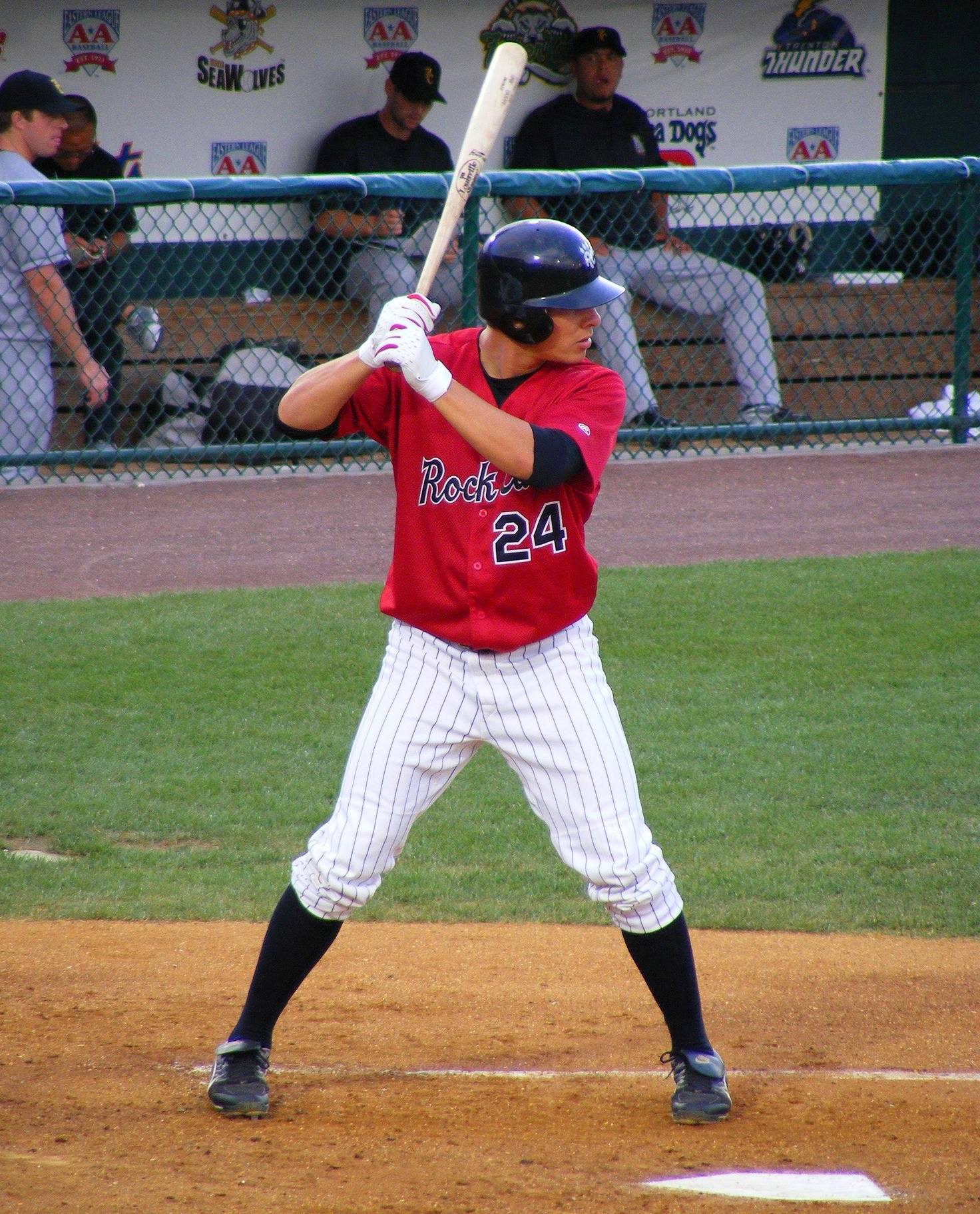 2008 photo of Danny Valencia